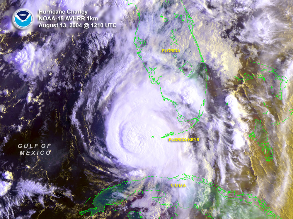 Hurricane Charley (2004)